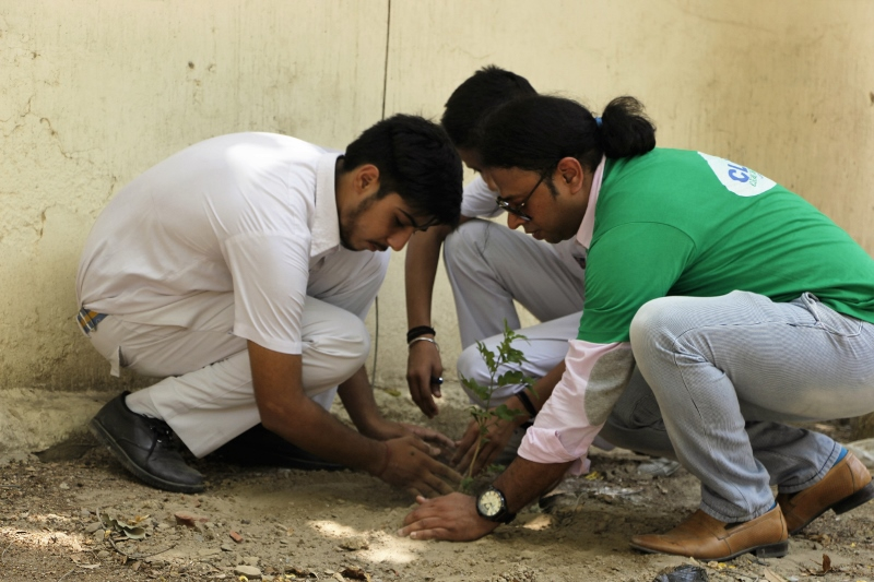 Clean Air India Movement plantation drive on World environment day 5th June 2016.